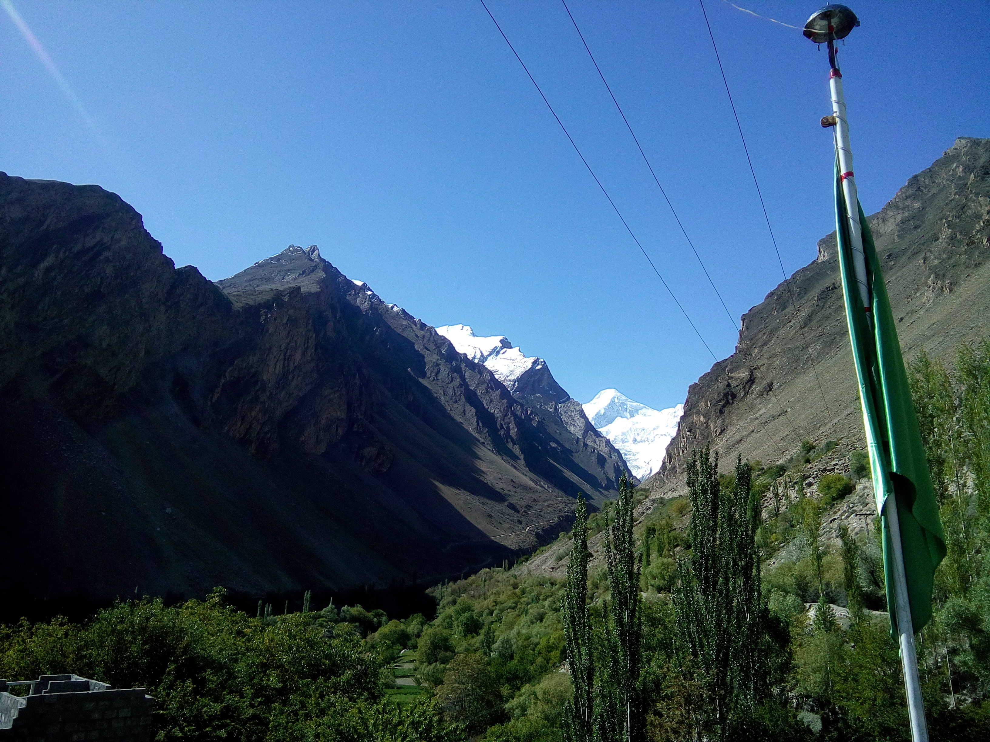 Sumayar valley Nagar Pakistan